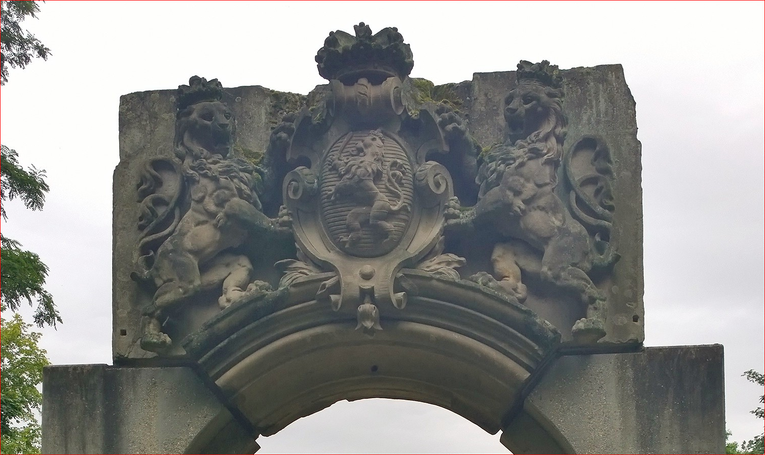 The old coat of arms, the lion of Hesse, from the entrance portal of the erased palase, view to the west